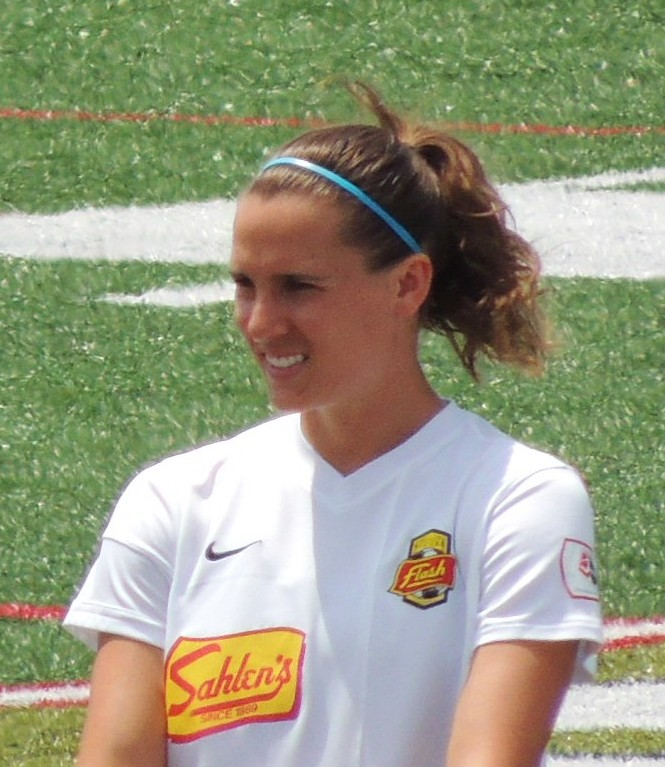 2013-07-04; Katherine Reynolds in starting lineup of Chicago Red Stars vs Western New York Flash